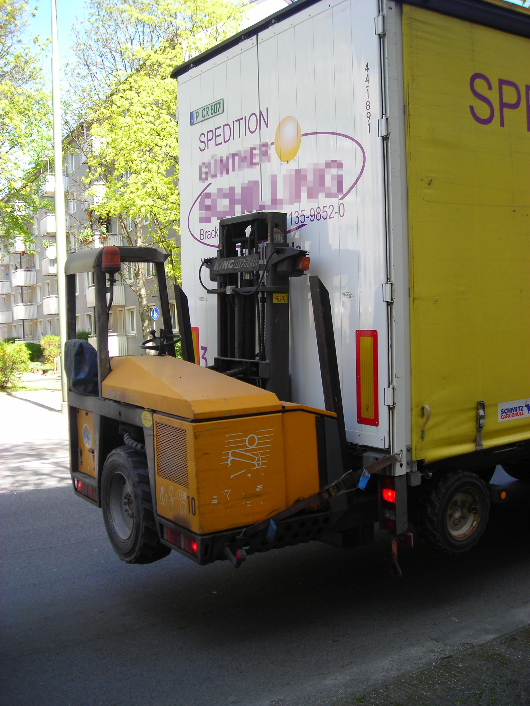 Forklift truck mounted on a truck while moving.